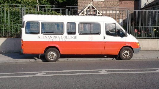 Schoolbus of Alexandra College in Dublin